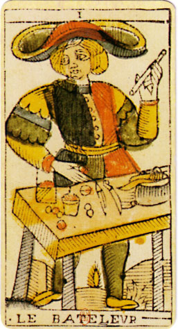 An original card from the tarot deck of Jean Dodal of Lyon, a classic Tarot of Marseilles deck which dates from 1701-1715.